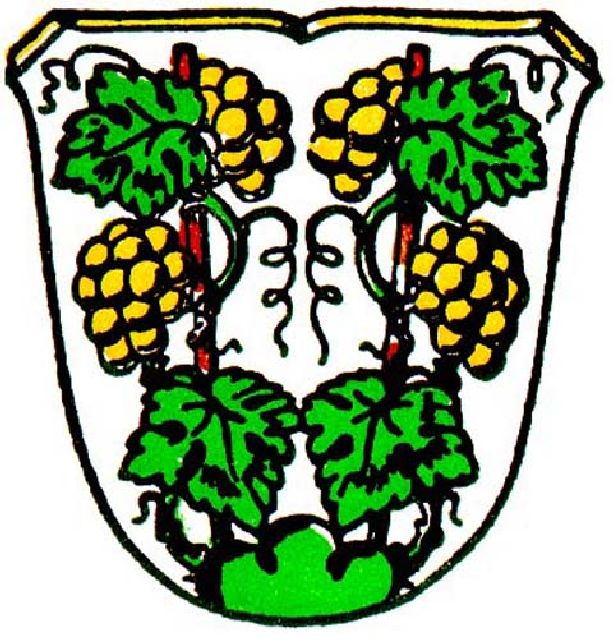 Coat of Arms of Euerdorf